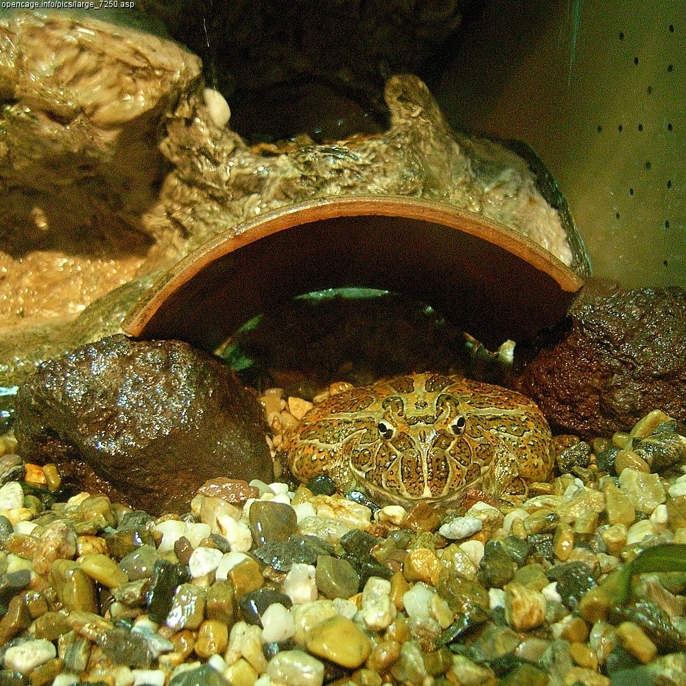 クランウェルツノガエル Cranwell's horned frog Species Ceratophrys cranwelli Familia Leptodactylidae Location Tennouji Zoo, Osaka, Japan Other photos; Copyright OpenCage